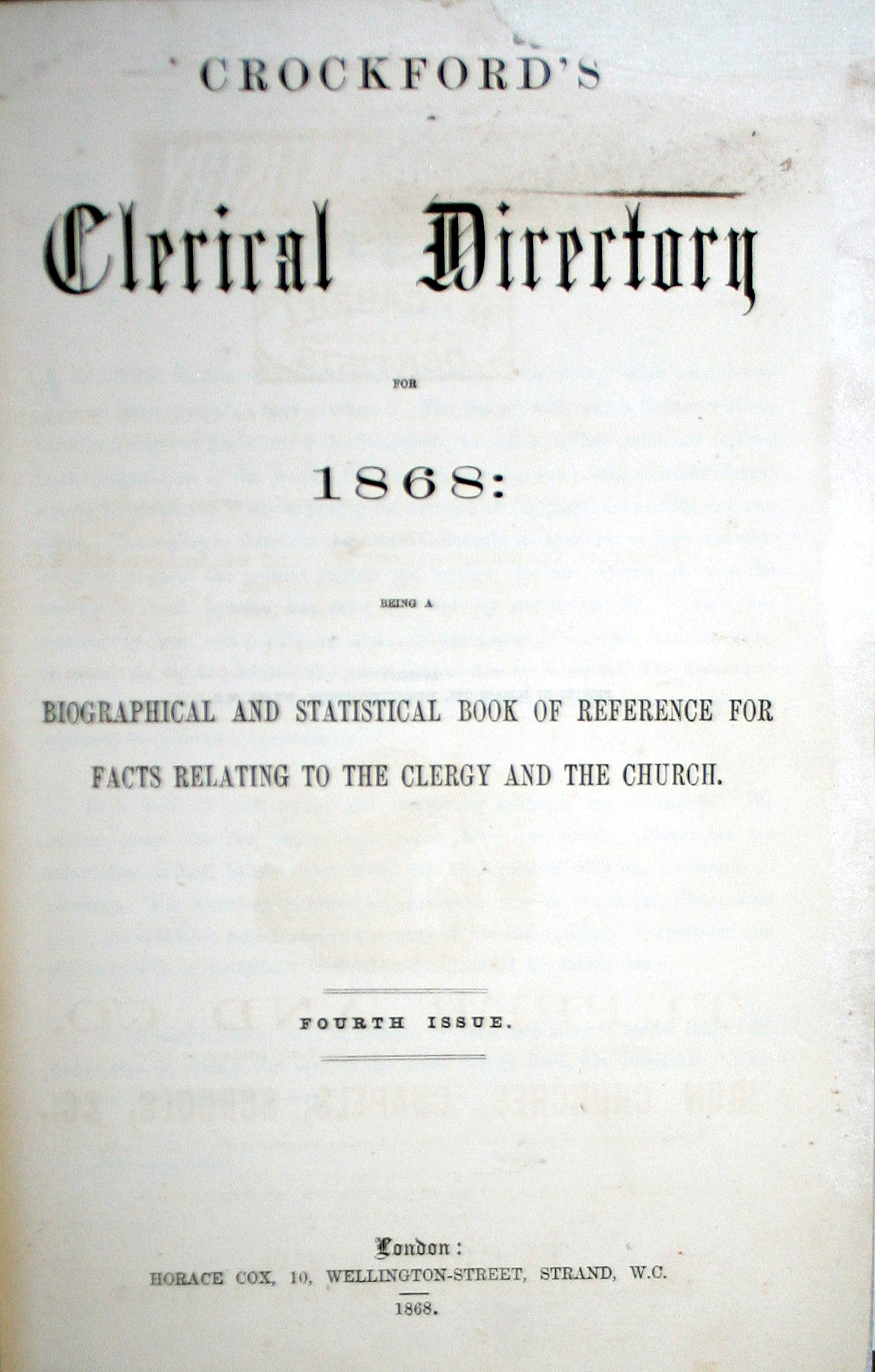 Crockford's Clerical Directory 1868: title page from original volume